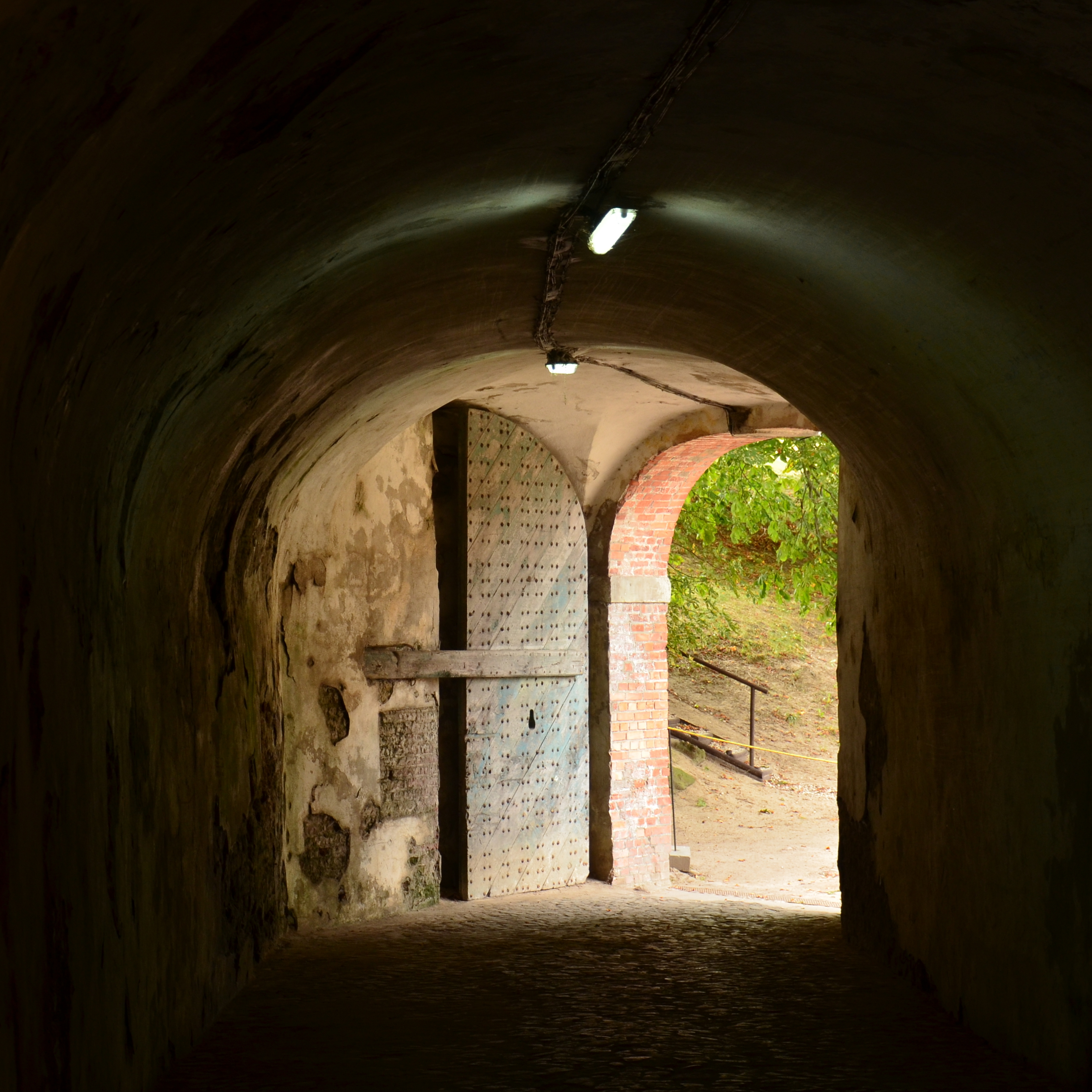 Wisłoujście Fortress